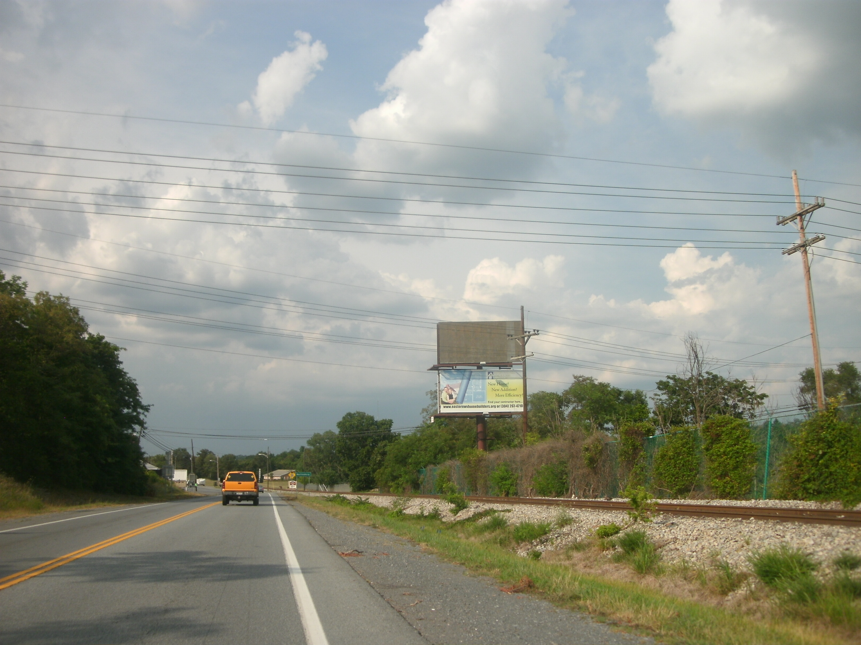 West Virginia State Routes 9 and 45 in the city of Martinsburg, West Virginia.